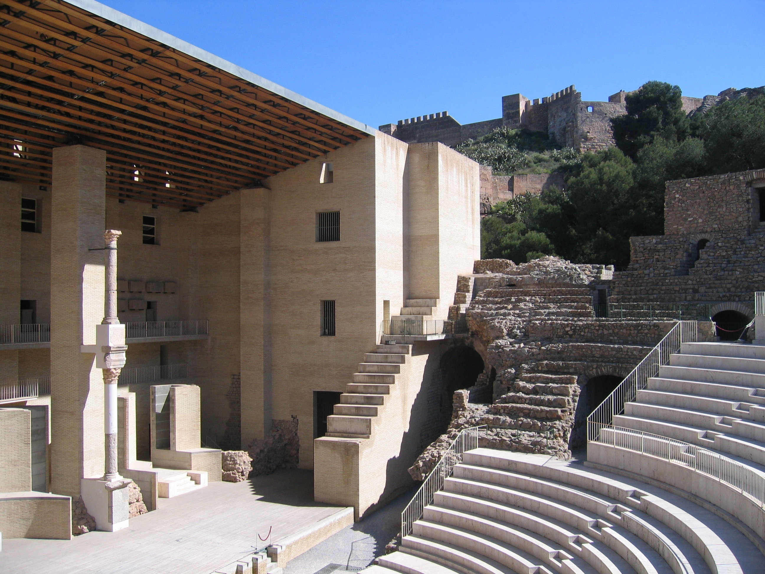 Archaeological Monument of the 1st c. AD restored in 1992